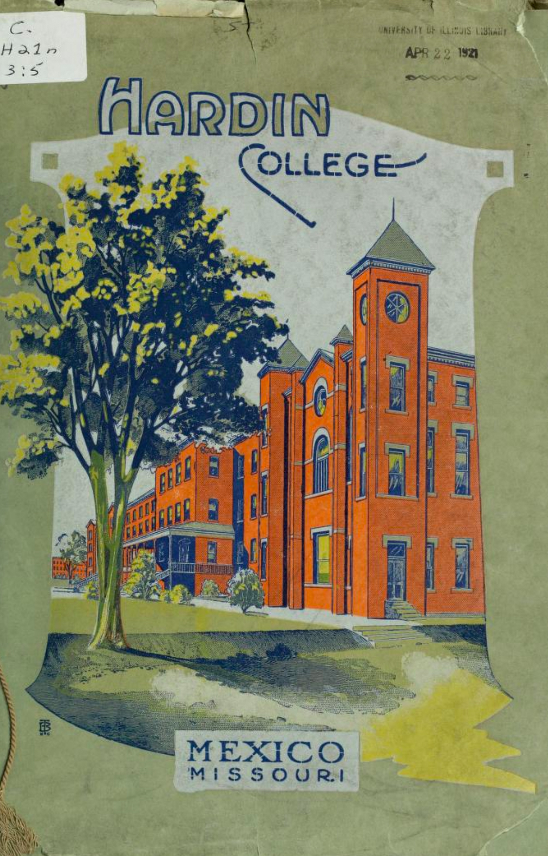 The cover of the 1919 Hardin College News Letter.